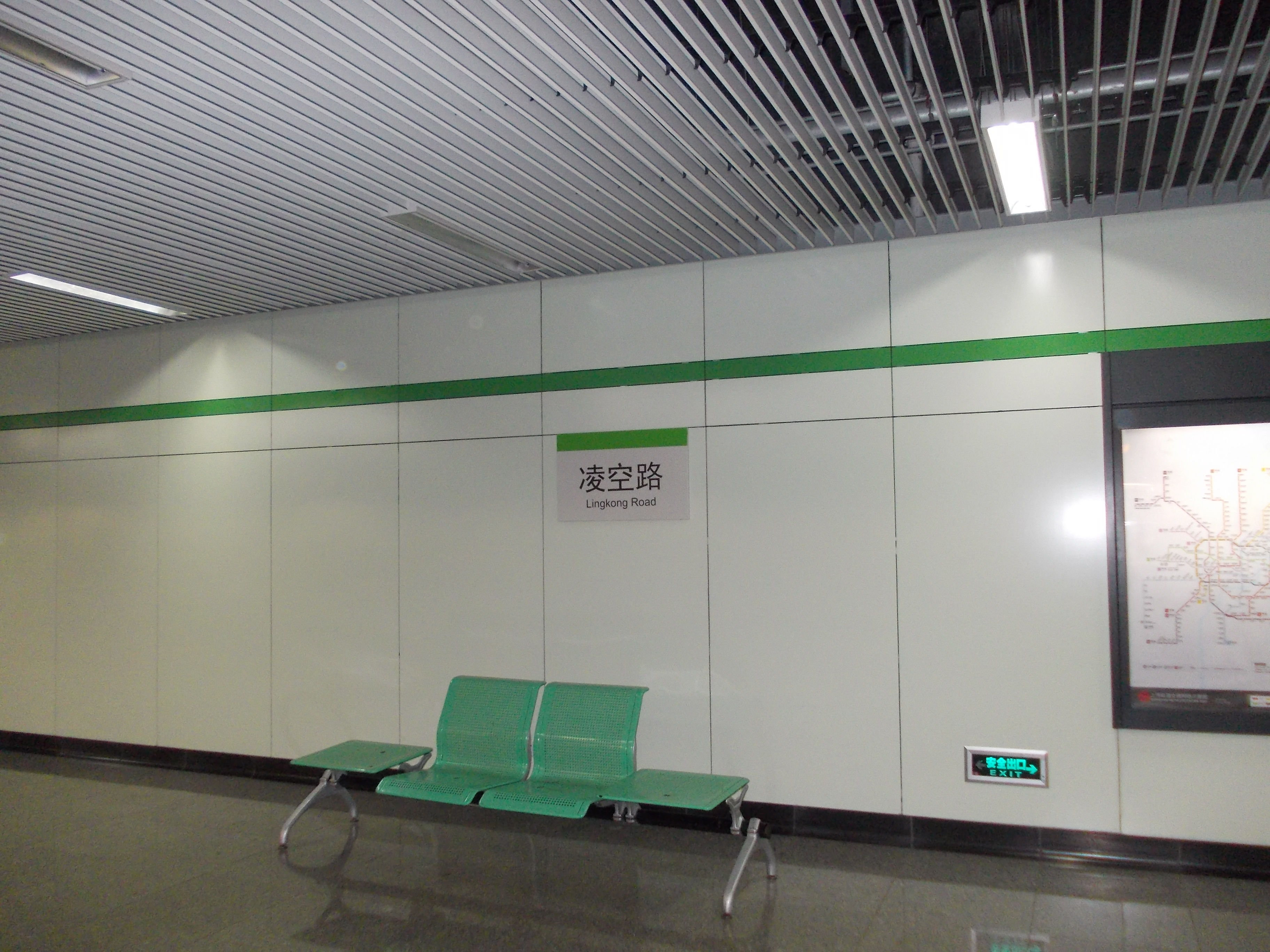 Shanghai Metro - Line 2 - Lingkong Road